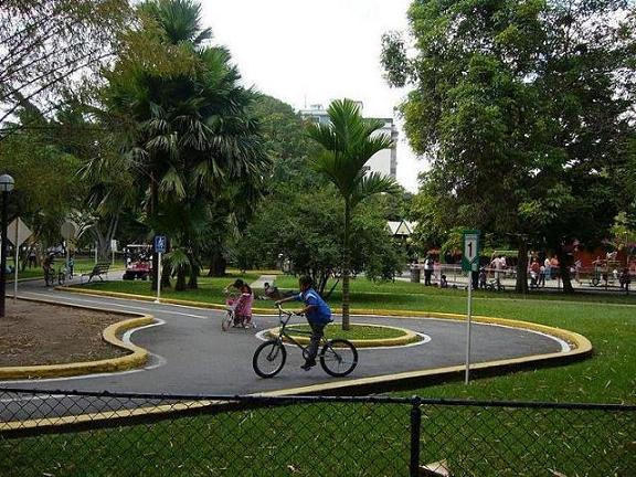 Park in Valencia, Venezuela, children learning traffic rules